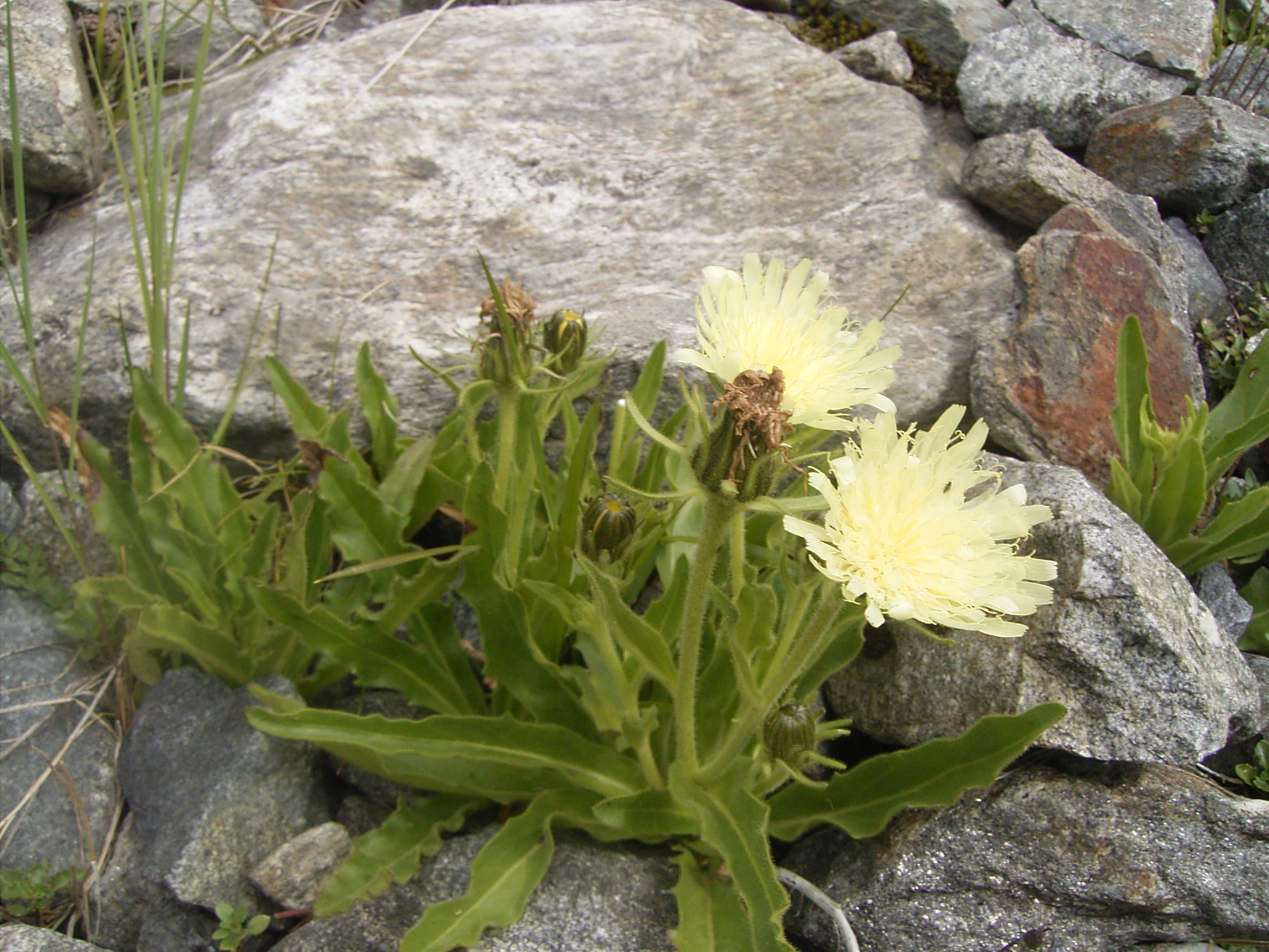 This photo shows Hieracium intybaceum